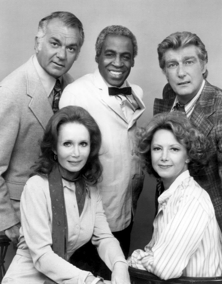 Photo of the Campbells and Tates with Benson from the television program Soap. Standing, from left: Robert Mandan (Chester Campbell), Robert Guillaume (Benson), Richard Mulligan (Bert Campbell). Seated, from left: Katherine Helmond (Jessica Tate), Cathryn Damon (Mary Campbell).